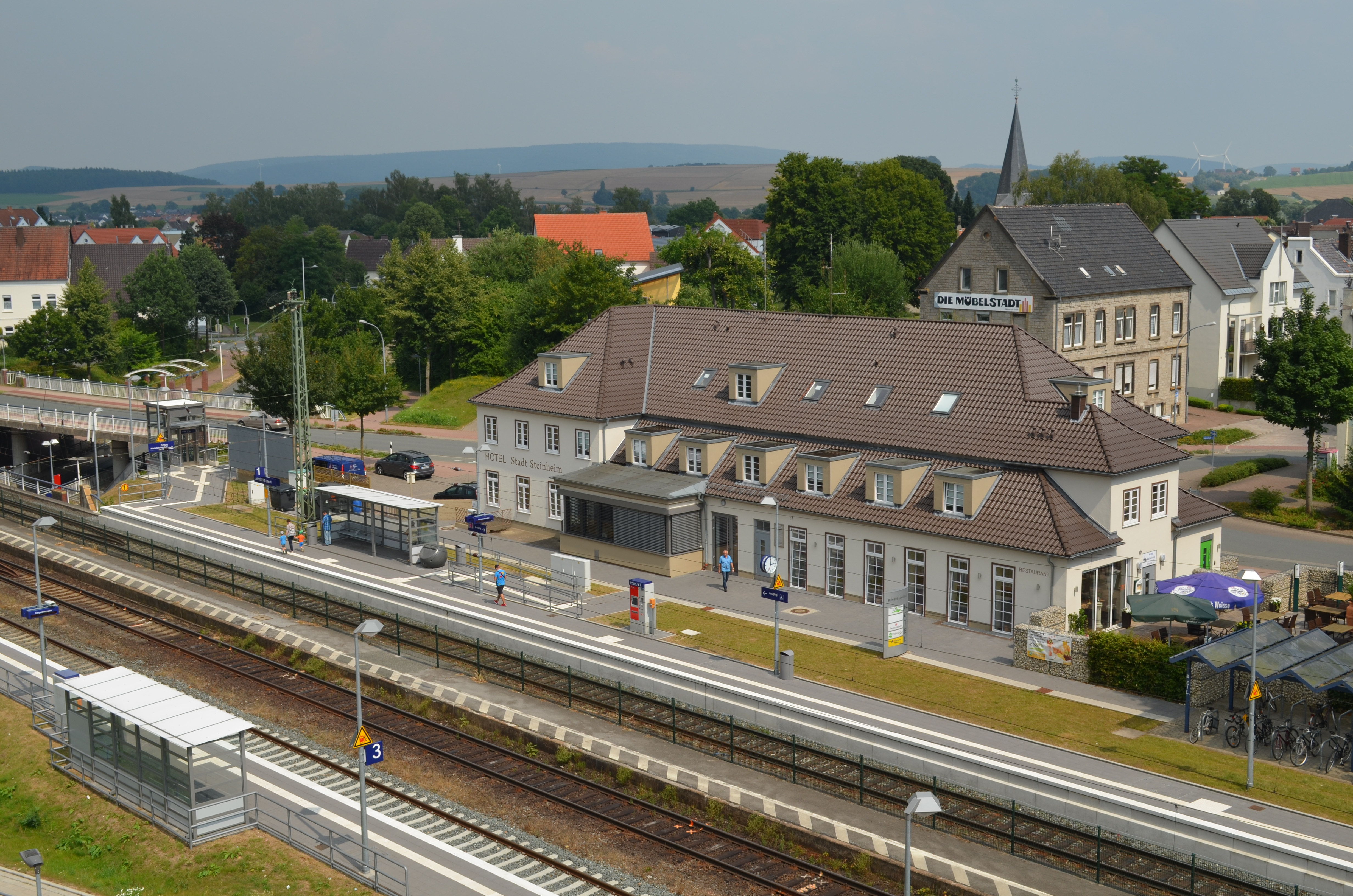 Bahnhof Steinheim / Westfalen